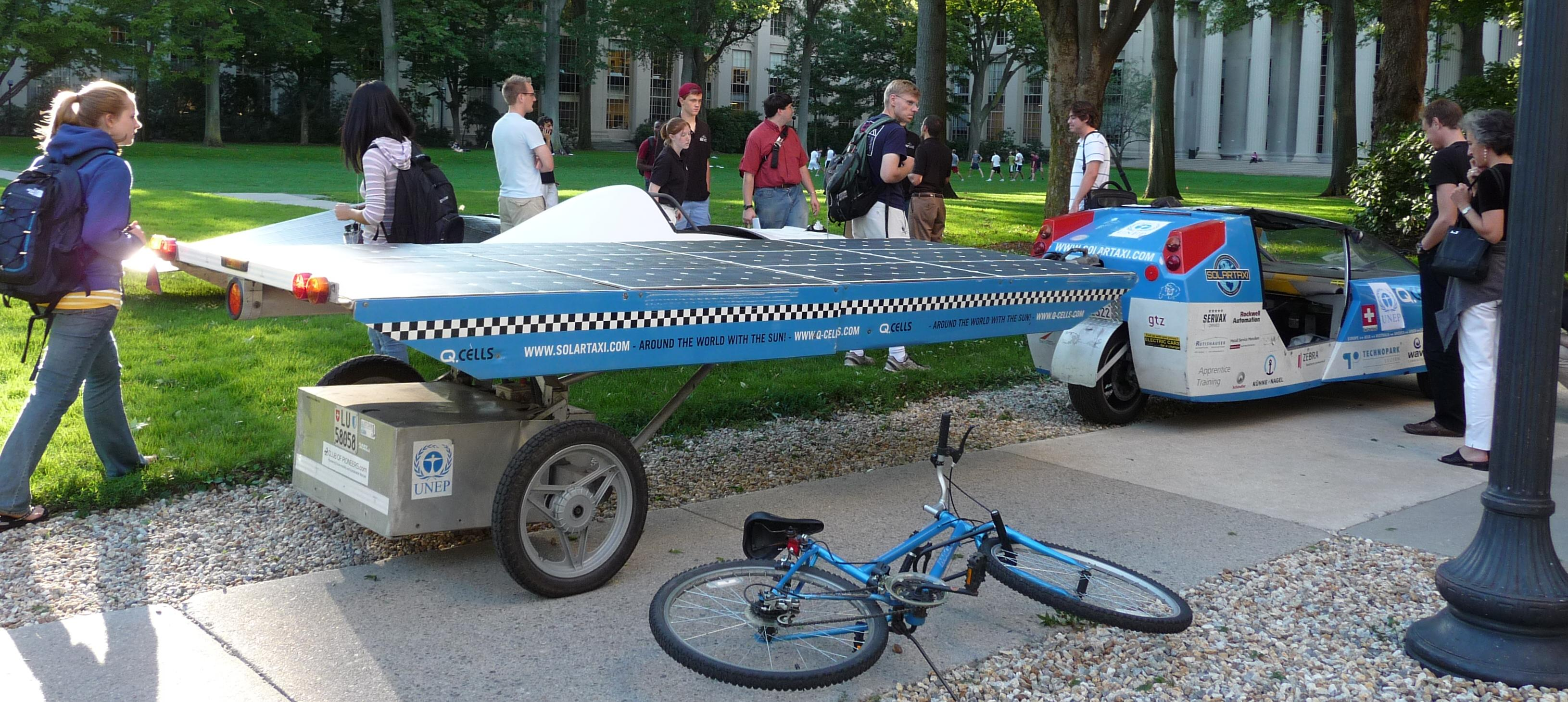 Solar taxi showing trailer.